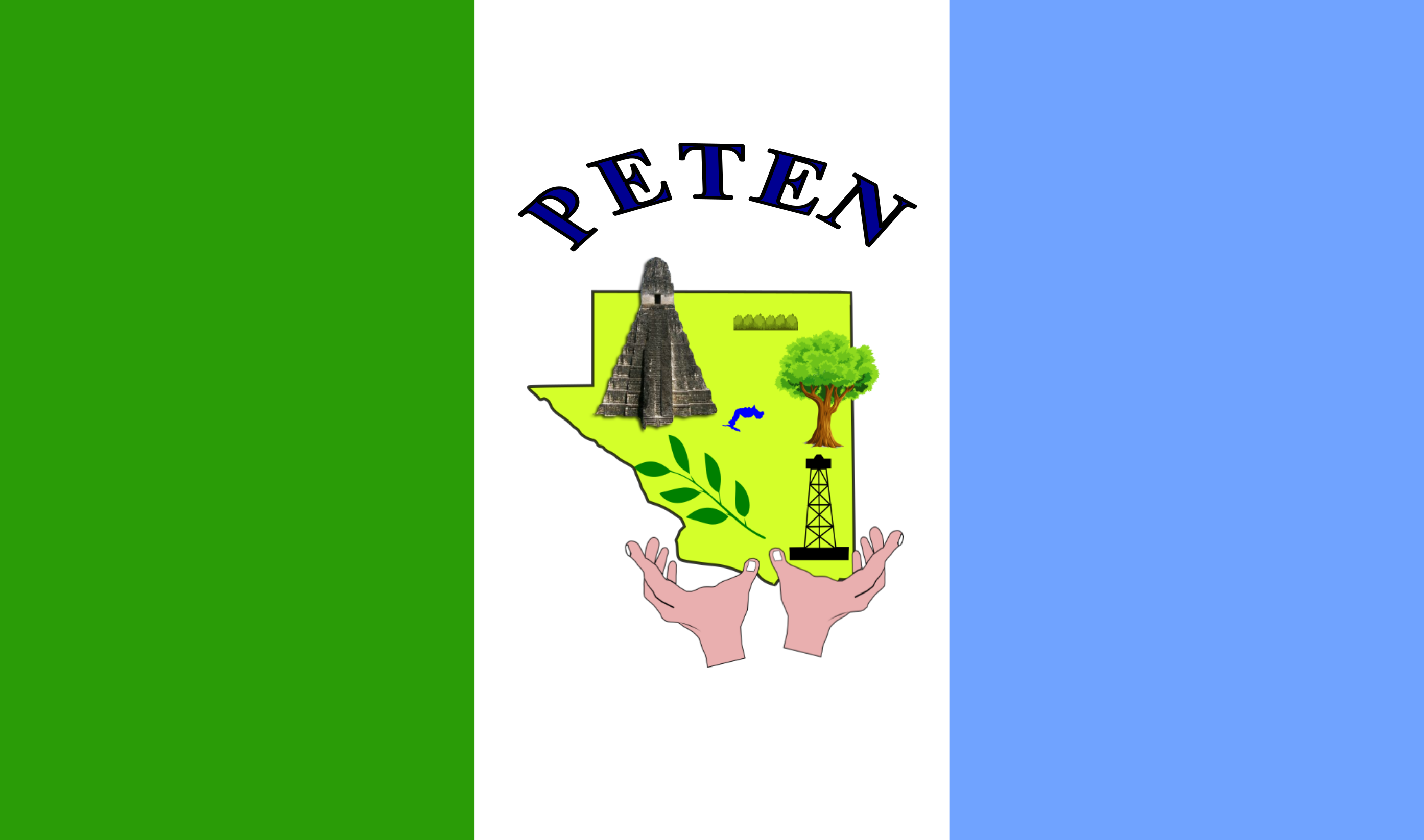 El Petén Flag